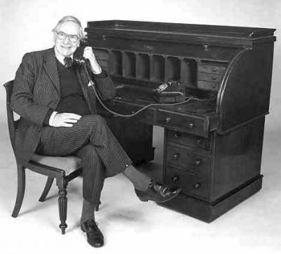 Chad Varah